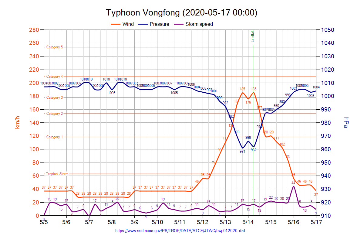 Typhoon Vongfong (2020) chart